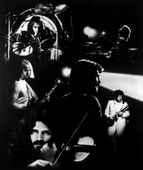 Publicity photo of the music group Kansas.